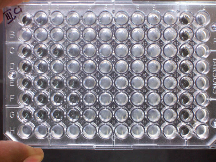 Minimum Inhibitory Concentration (MIC) determination of an isolate by microbroth dilution technique (in a 96-well microtitre plate)